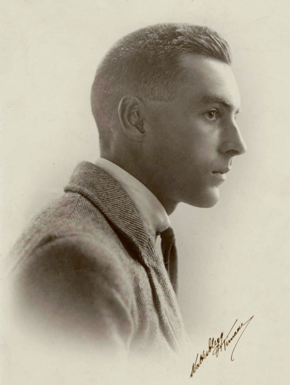 Portrait of Walter D'Darcy Cresswell taken in 1921. Photographer unidentified. (Photographer's inscription is unclear)